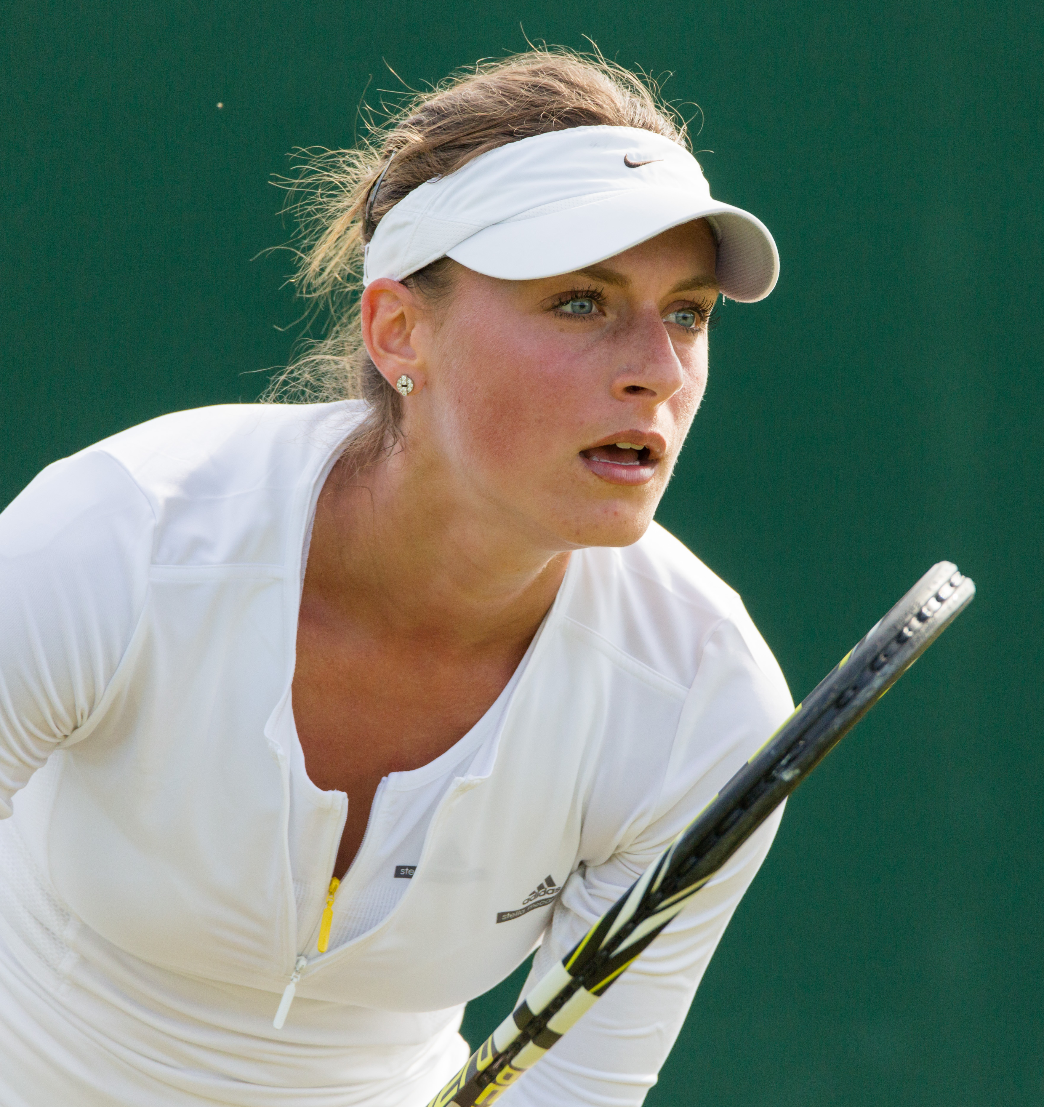 Ana Bogdan competing in the first round of the 2015 Wimbledon Qualifying Tournament at the Bank of England Sports Grounds in Roehampton, England. The winners of three rounds of competition qualify for the main draw of Wimbledon the following week.